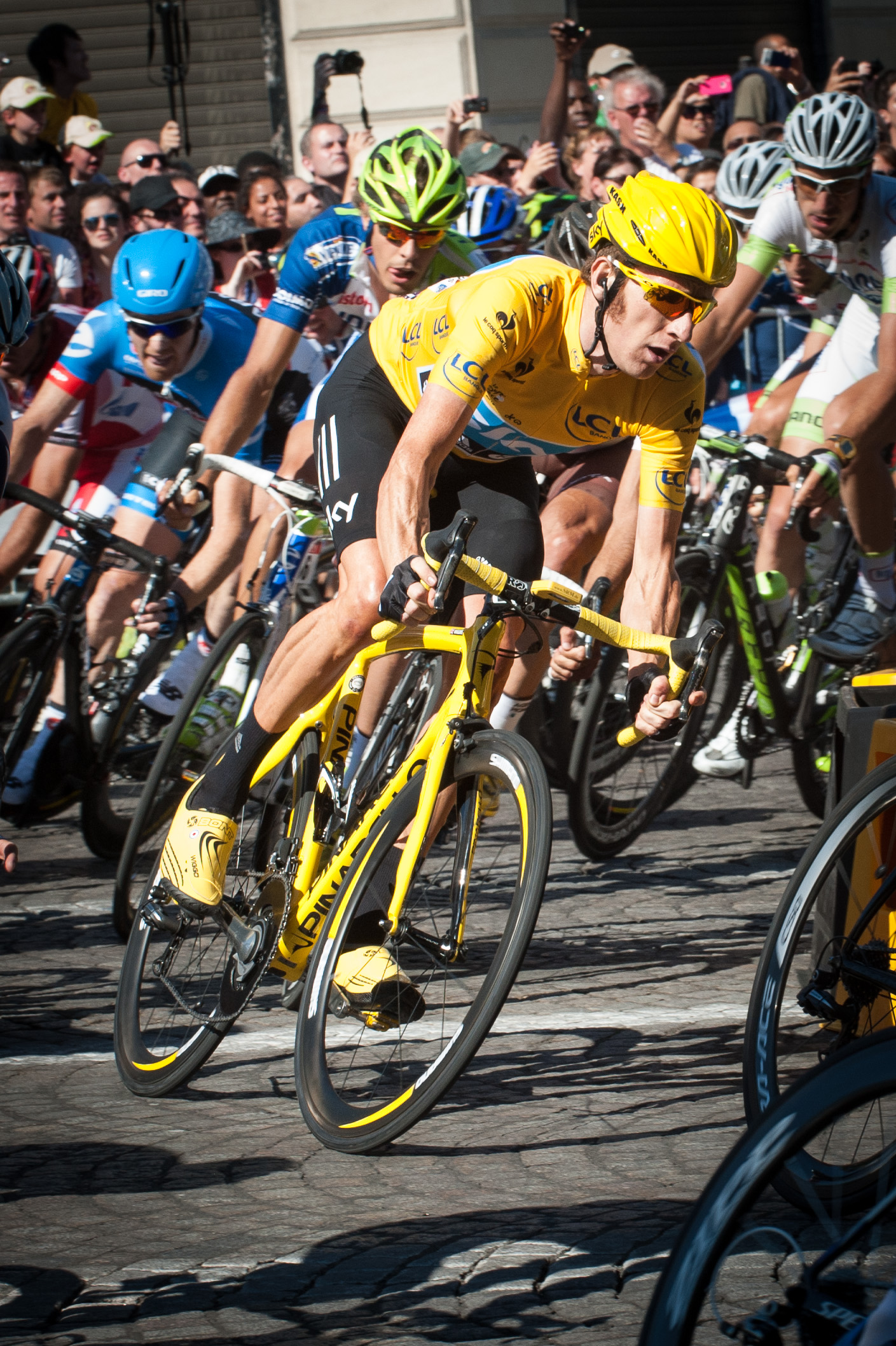 Bradley Wiggins - 2012 Tour de France